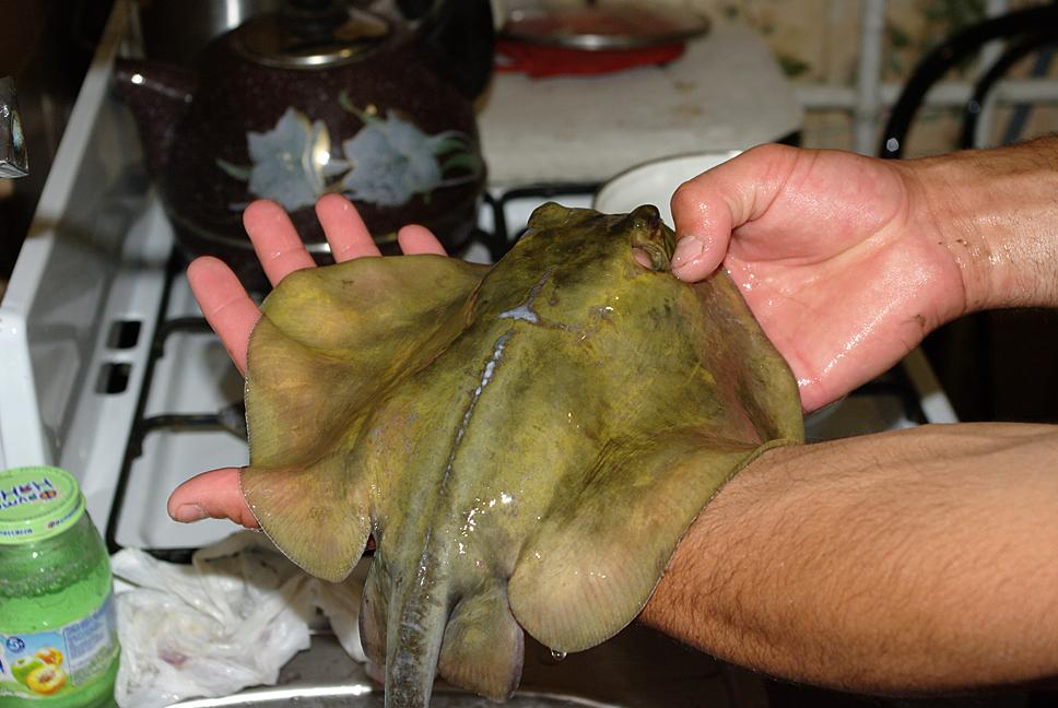 Dasyatis pastinaca (Stingray), fished in Black Sea. Beautiful, dangerous and tasty!